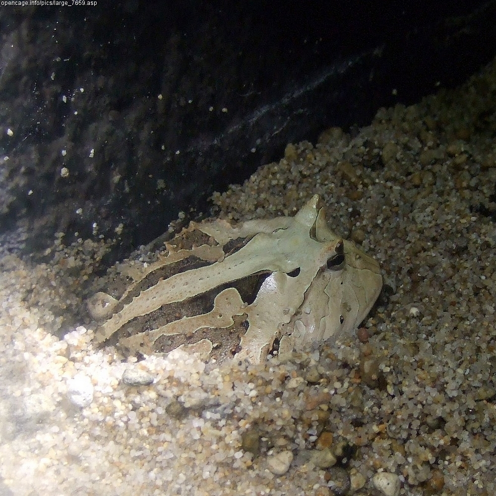 アマゾンツノガエル Amazonian horned frog Kingdom:Animalia Phylum:Chordata Class:Amphibia Order:Anura Family:Leptodactylidae Genus:Ceratophrys 動物界 脊索動物門 両生綱 無尾目(カエル目) ユビナガカエル科 ツノガエル属 Species Ceratophrys cornuta Location: Suma Aqualife Park, KOBE, Japan Other photos: NCBI Taxonomy ID:248779 Copyright: OpenCage